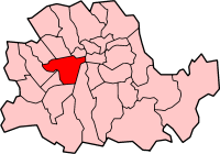 Map of the Metropolitan borough of Westminster, former County of London.